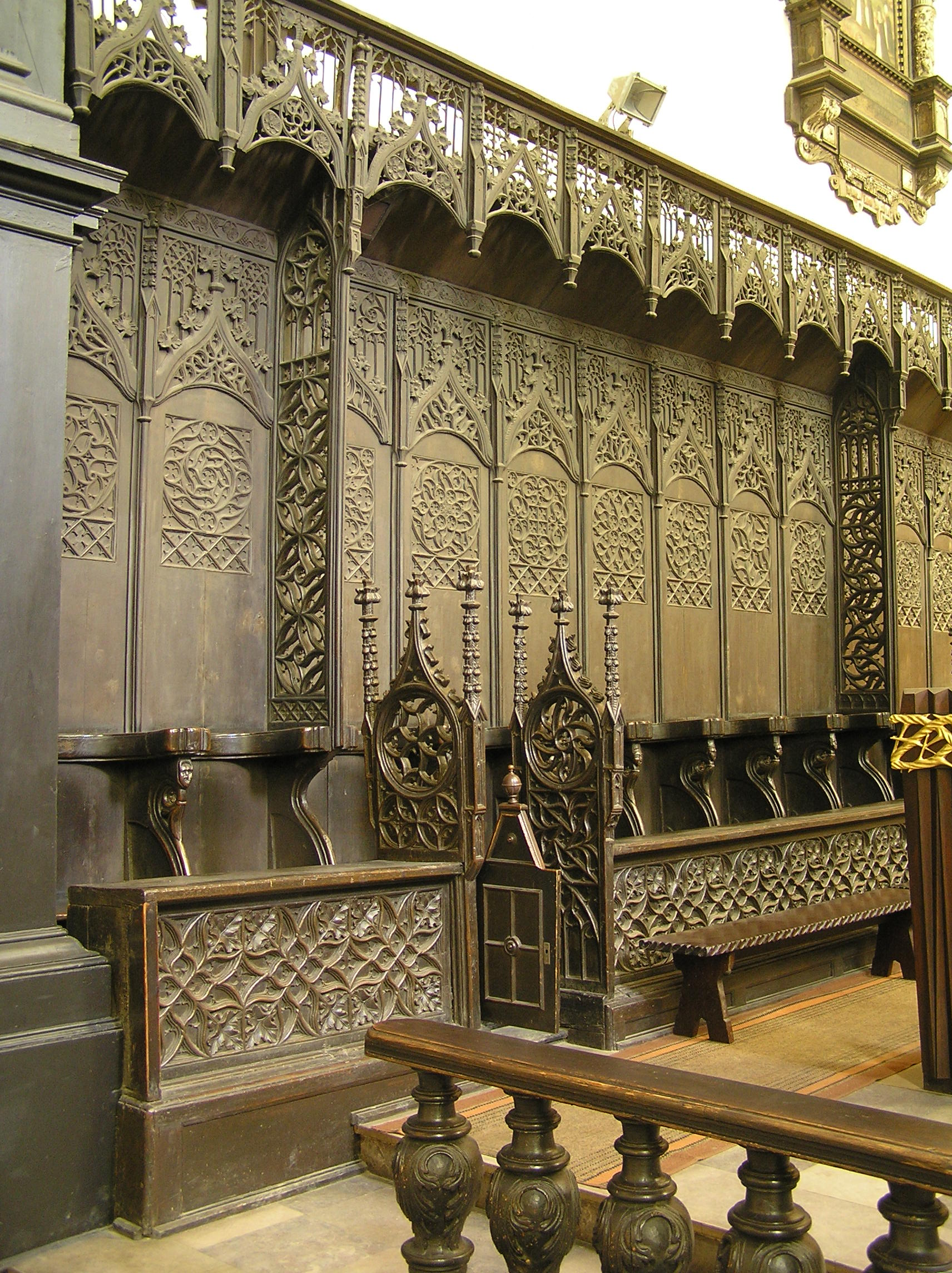 Toruń, gothic stalls in Virgin Mary church in Toruń, northern side.